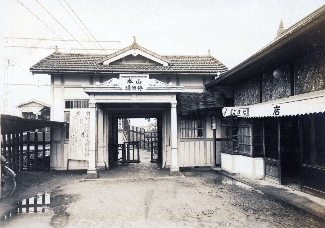 Old Station 'Yamamoto' of Kintetsu railway